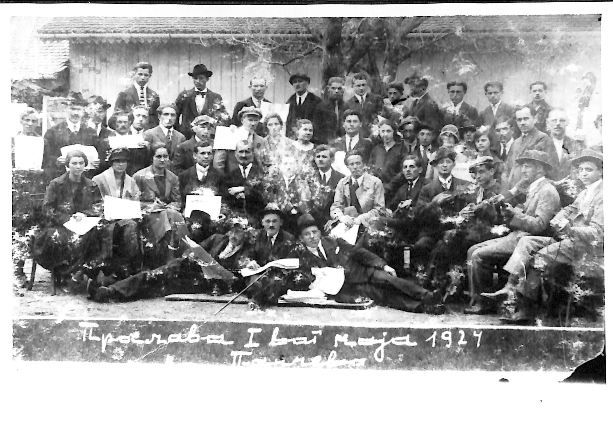 Celebration on May 1st in Pančevo